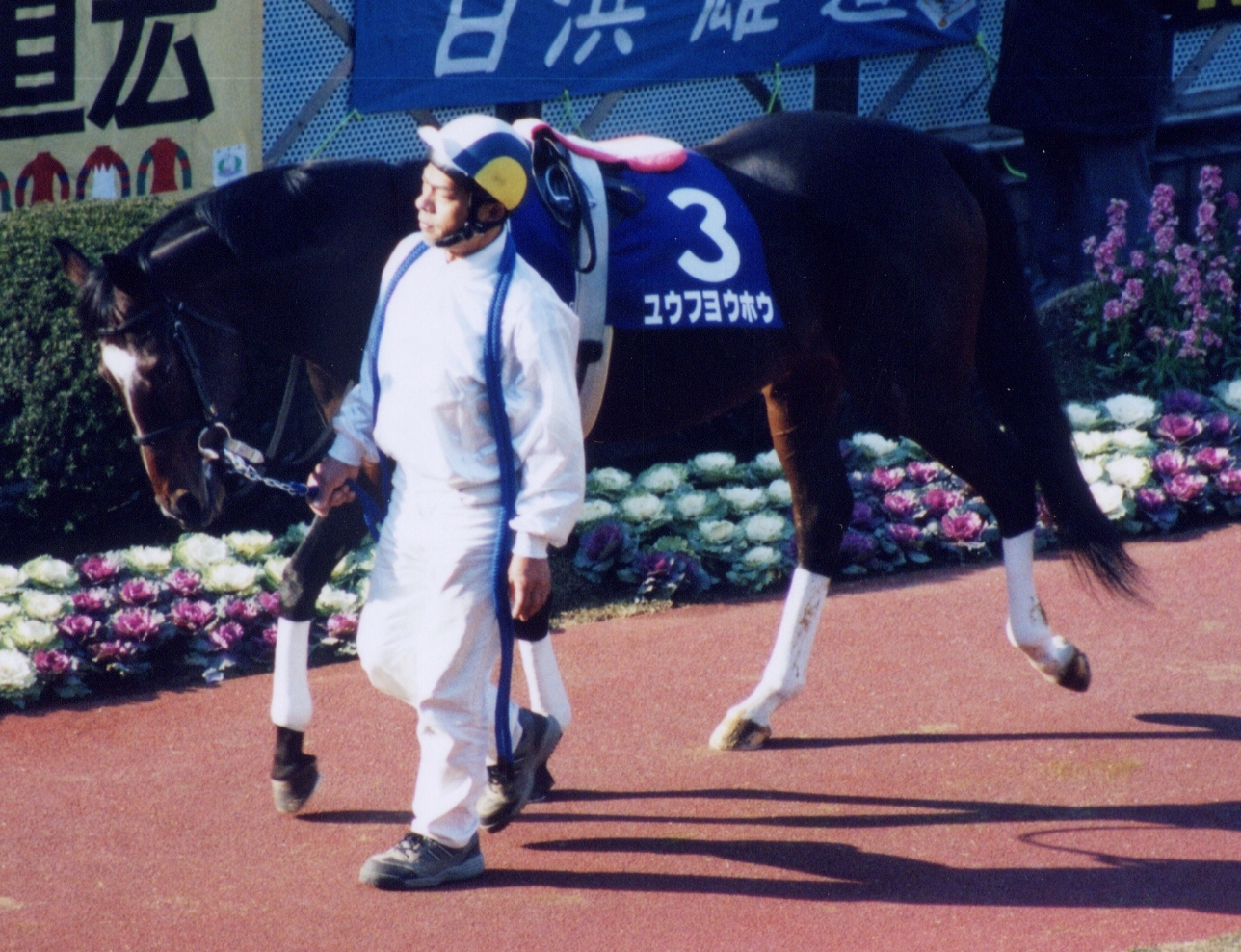 Yu Fuyoho (horse)